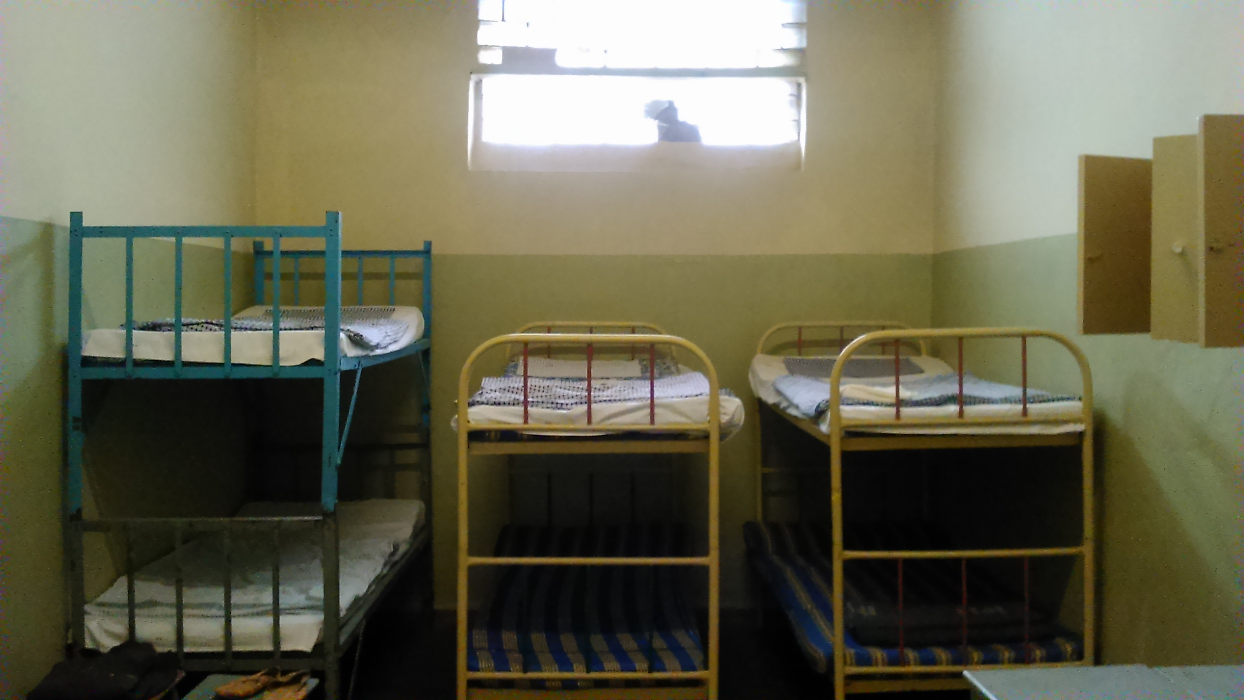 A prison cell shared by six men in the former Andreasstrasse Prison, Erfurt, Germany, which is now the Memorial and Education Centre Andreasstrasse, a museum about the Stasi and repression in East Germany.